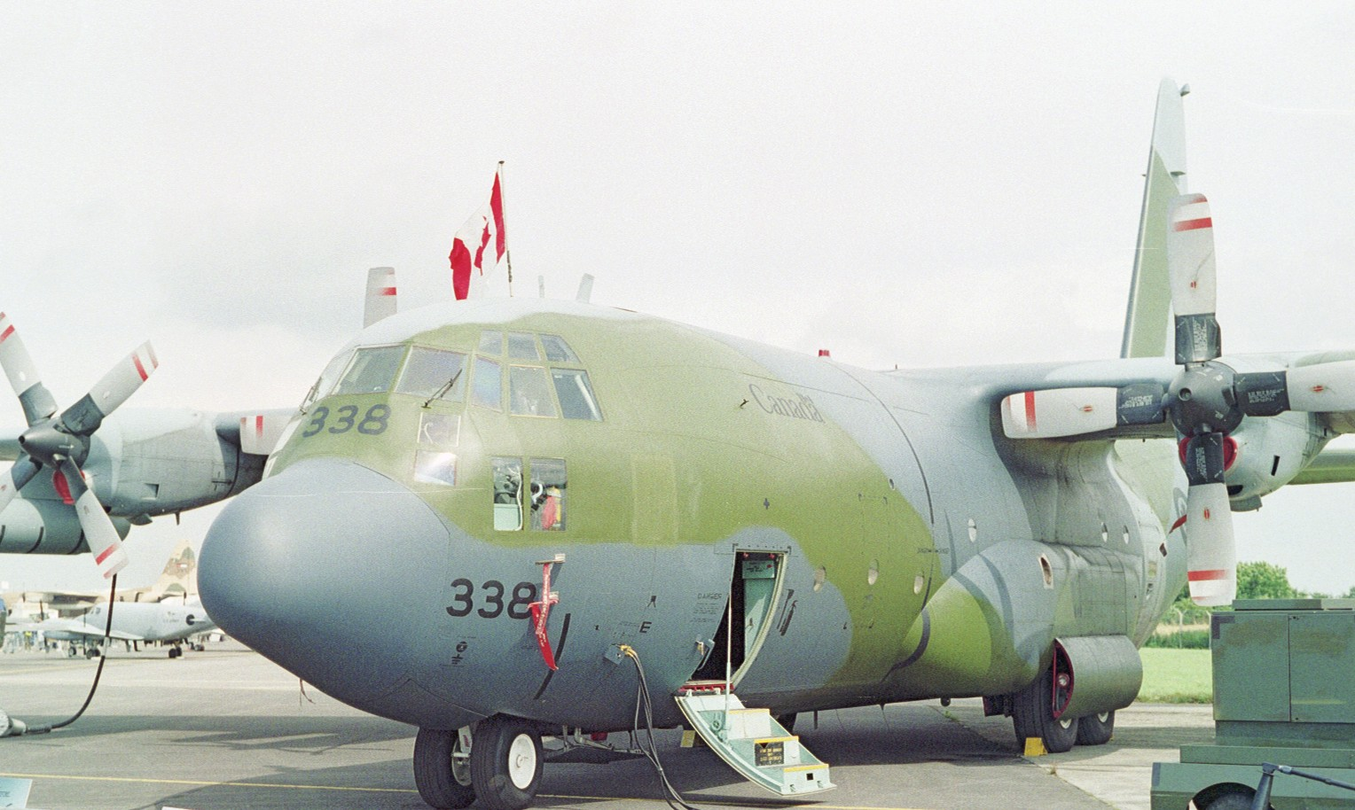 Fairford (FFD / EGVA) UK - England, July 24, 1993.